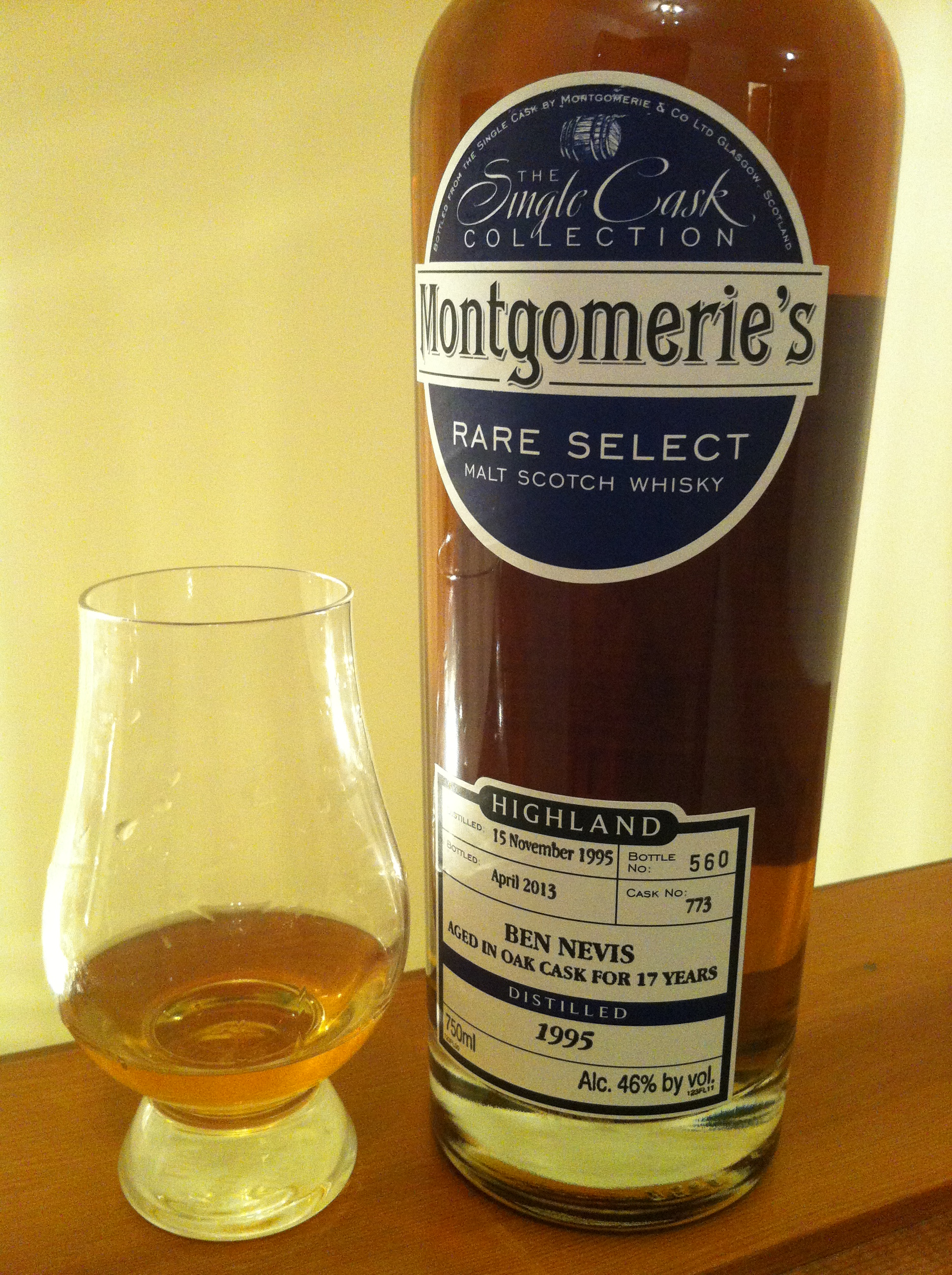 An independent bottling sine malt from the Ben Nevis distillery